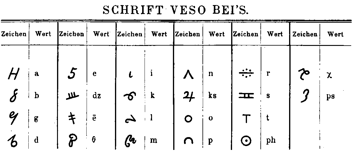 Alphabet used during the XIX century in Albania.